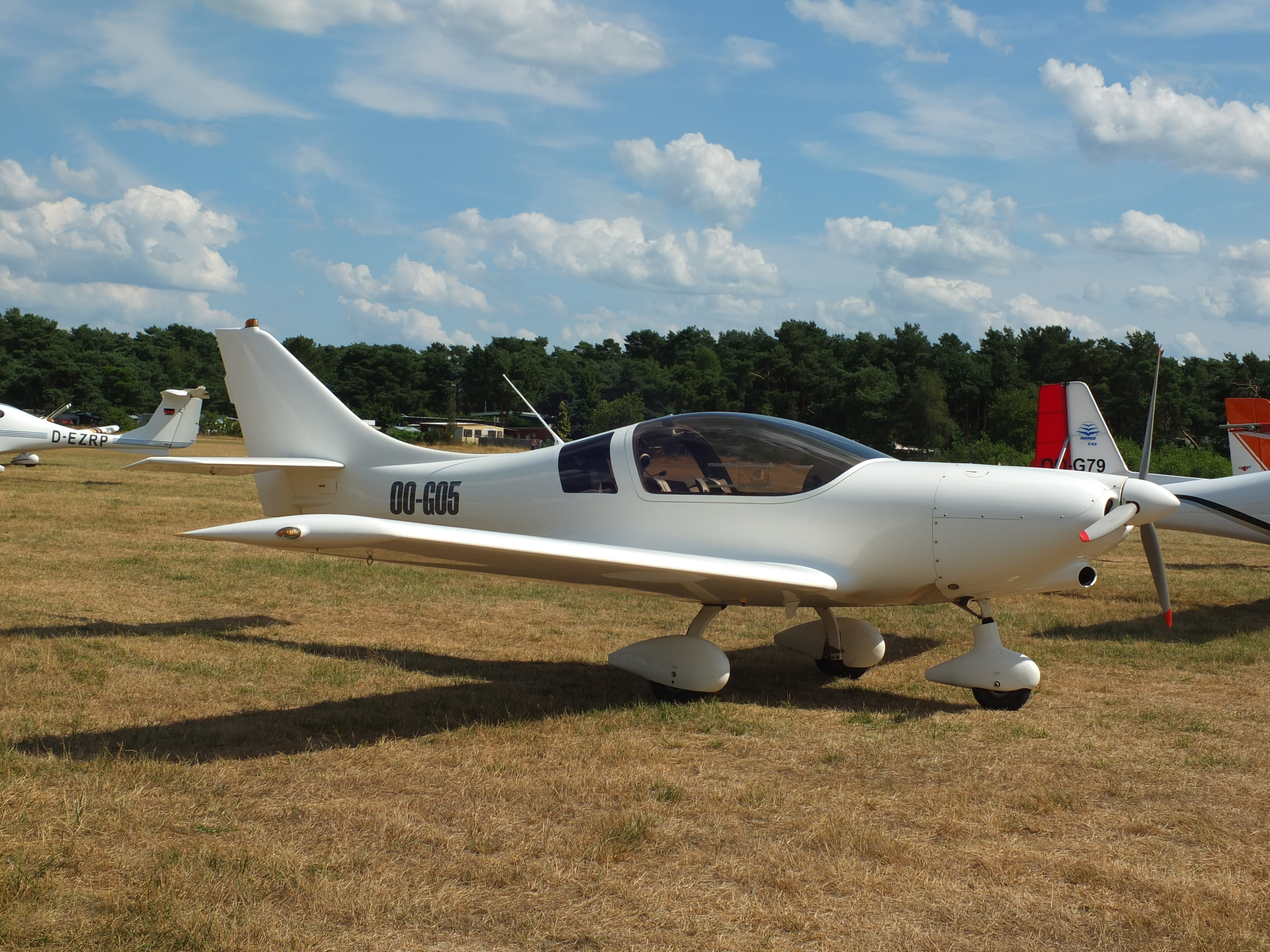 Aveko VL-3 Sprint OO-G05 (c/n VL3-31) at Keiheuvel Aeroclub's Fly In 2013.